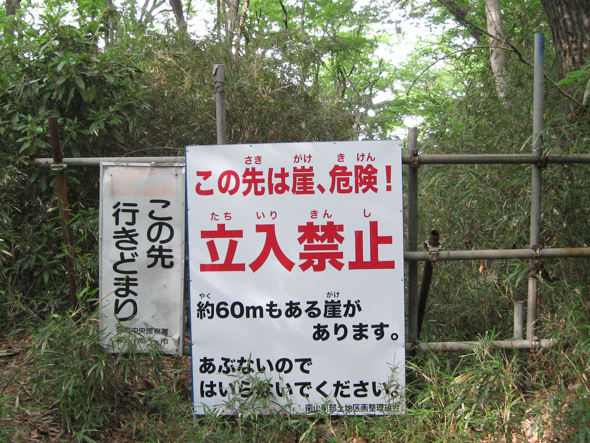 Sign of 60-meter cliff in Minami-Yama Mountain, Inagi, Tokyo, Japan. The sign says "Do not Enter"